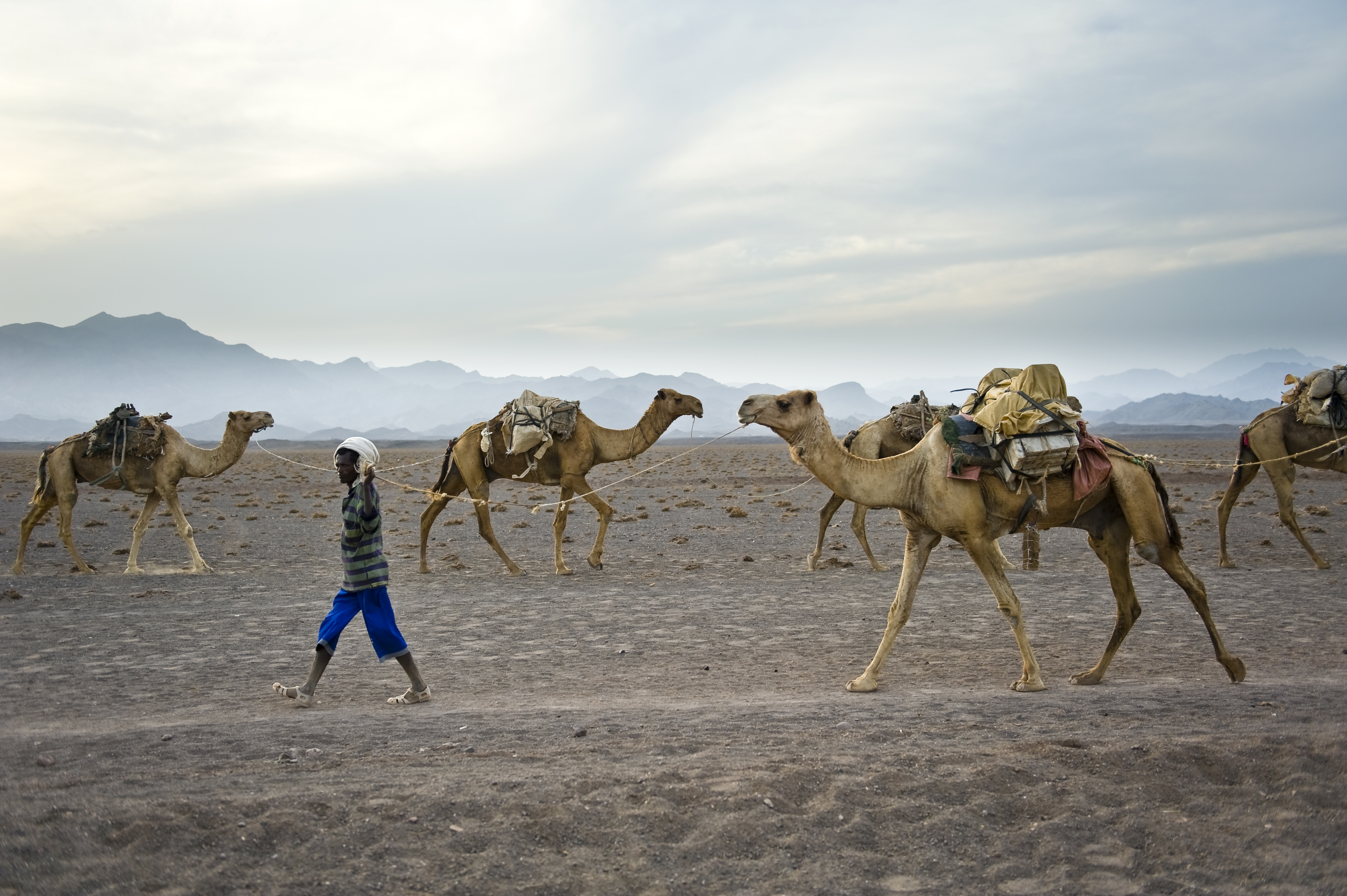 A Camereer in Ethiopia in 2014 This is an image of "African people at work" from Ethiopia